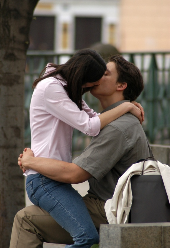 my fav photes